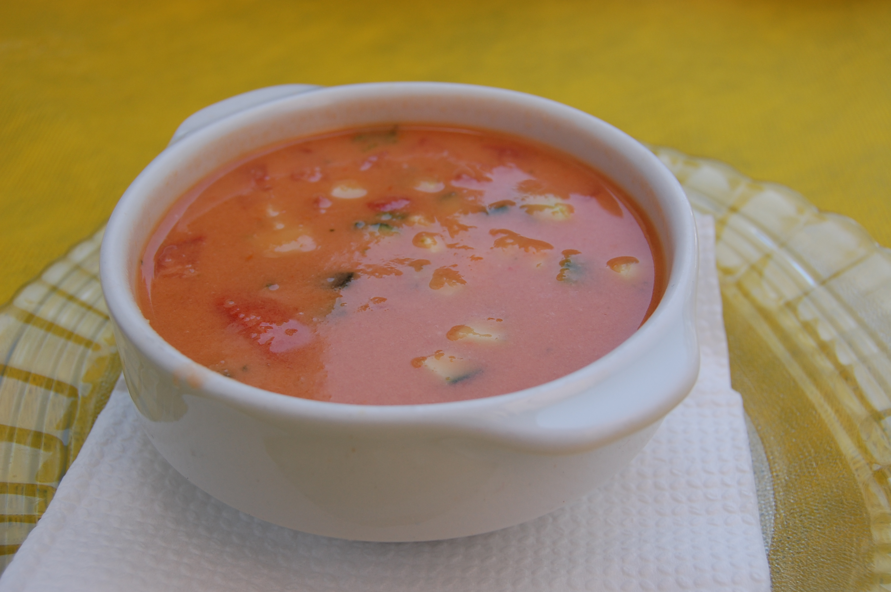 Gazpacho in Mijas.